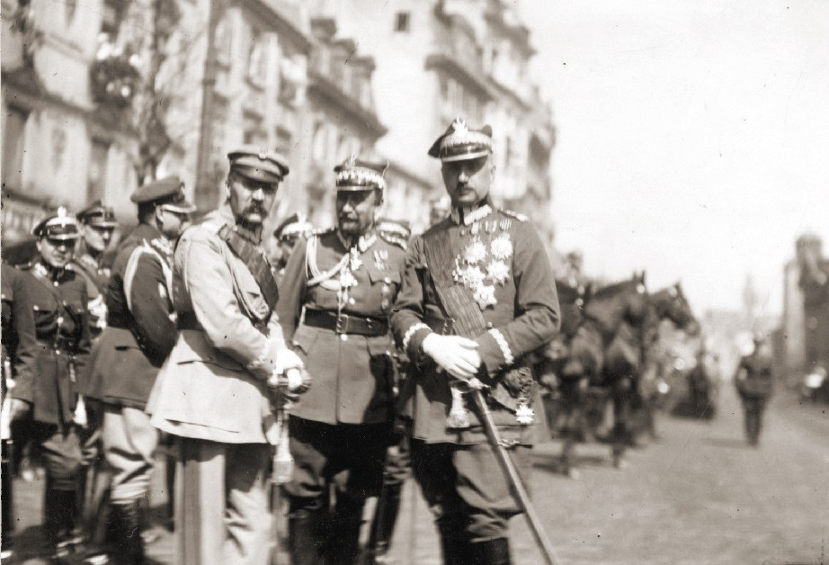 Marshall Józef Piłsudski, Gen. Tadeusz Rozwadowski , Gen. Kazimierz Sosnkowski, Warsaw 1923